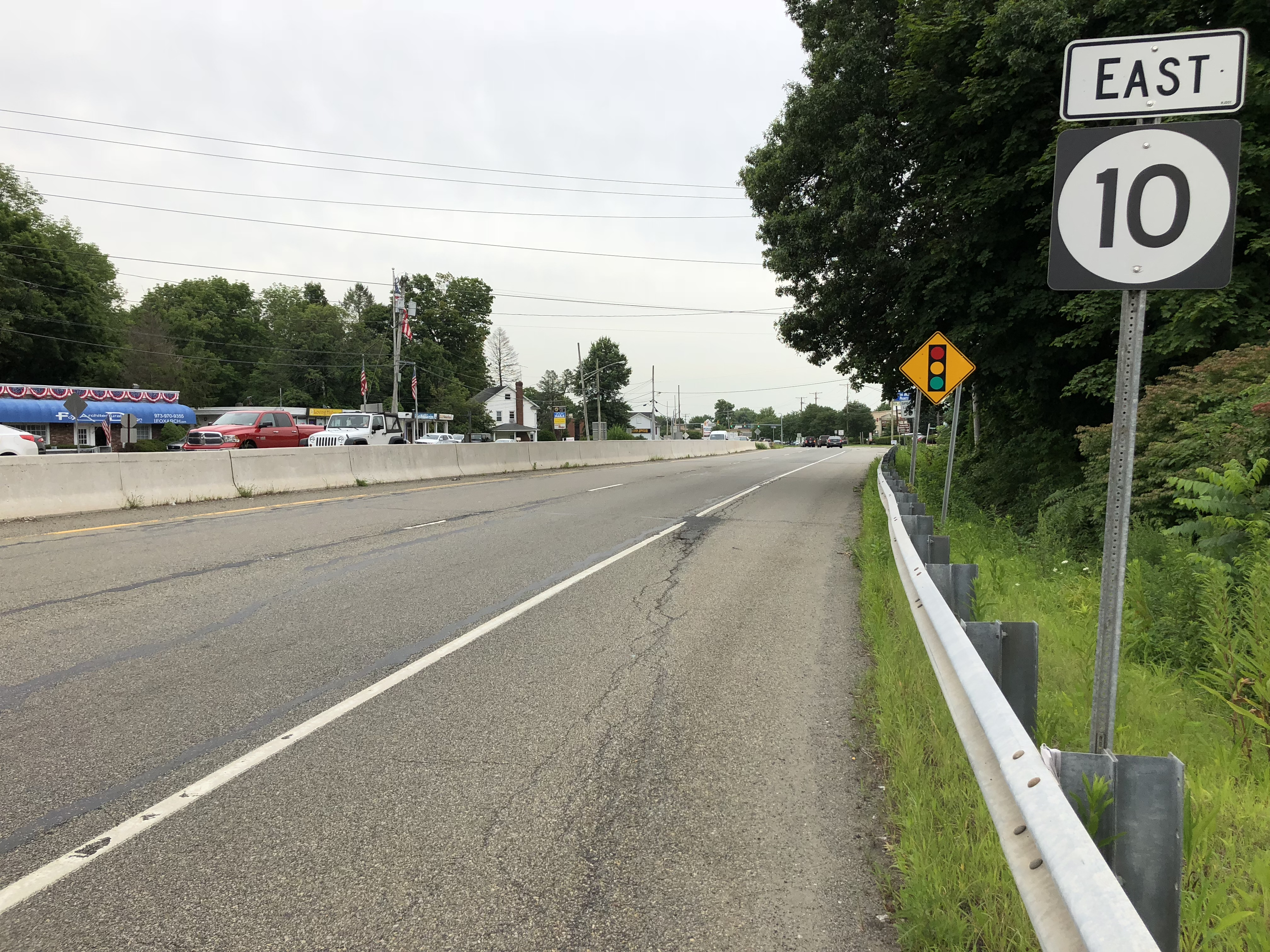 View east along New Jersey State Route 10 just east of U.S. Route 46 in Roxbury Township, Morris County, New Jersey